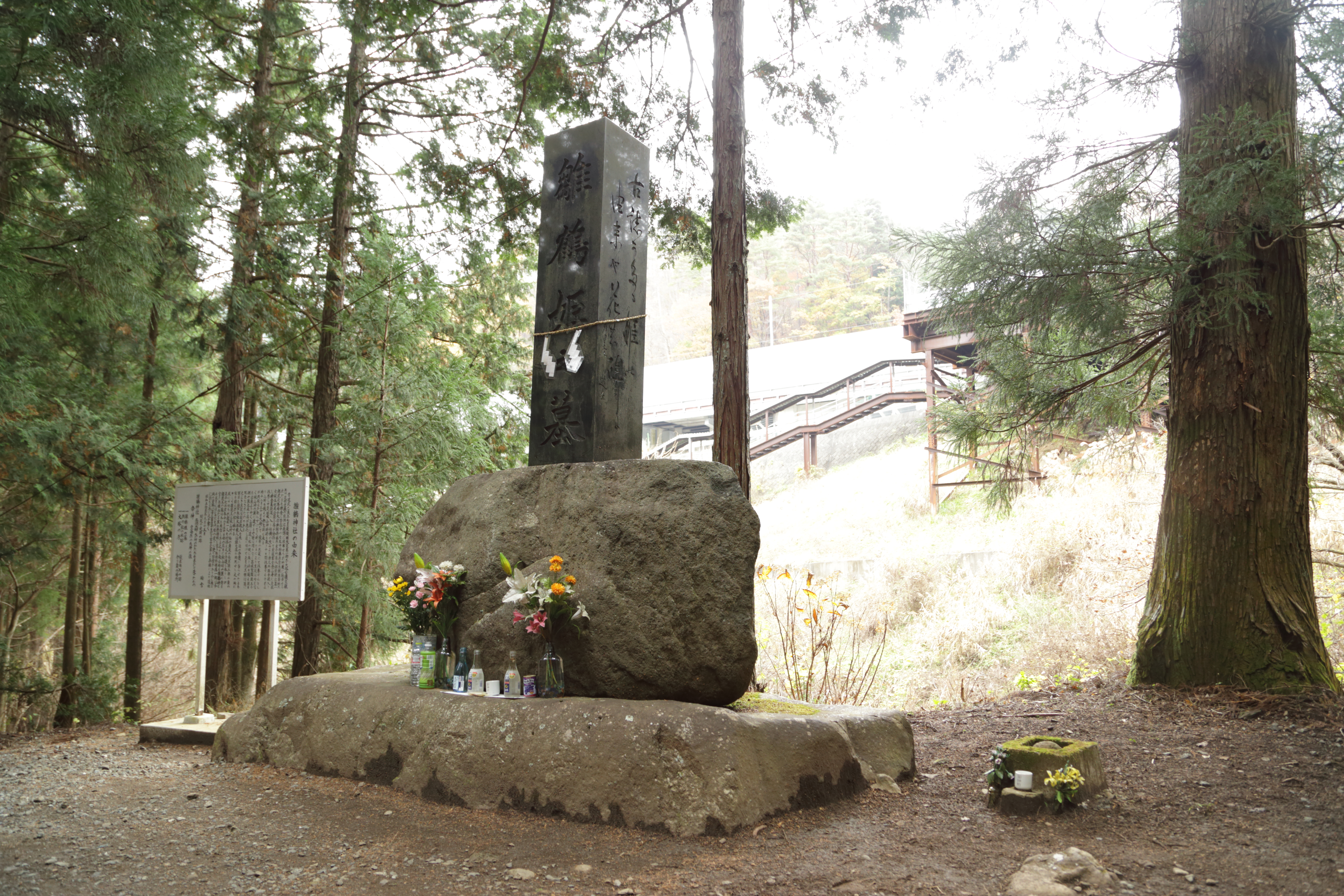 Hinatsuru Shrine, Tsuru, Yamanashi, Japan